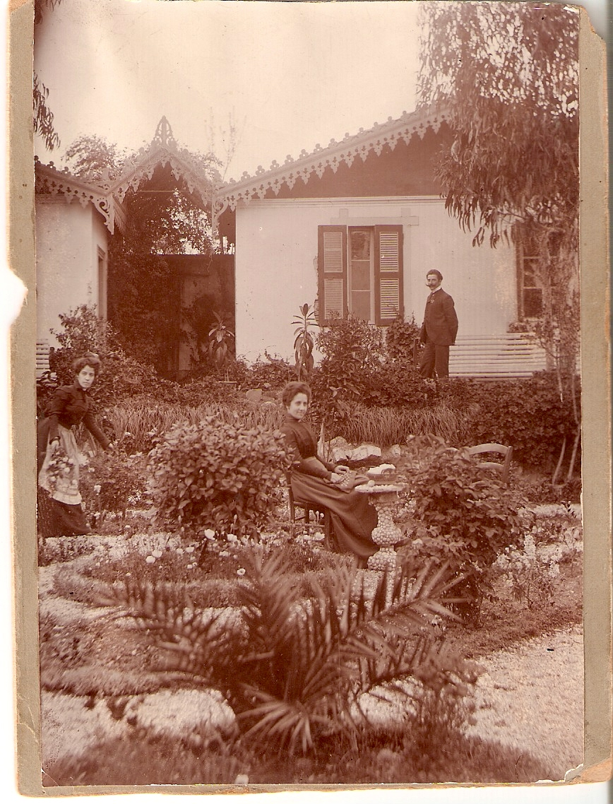 Part of Gofa house in Aigio, Greece